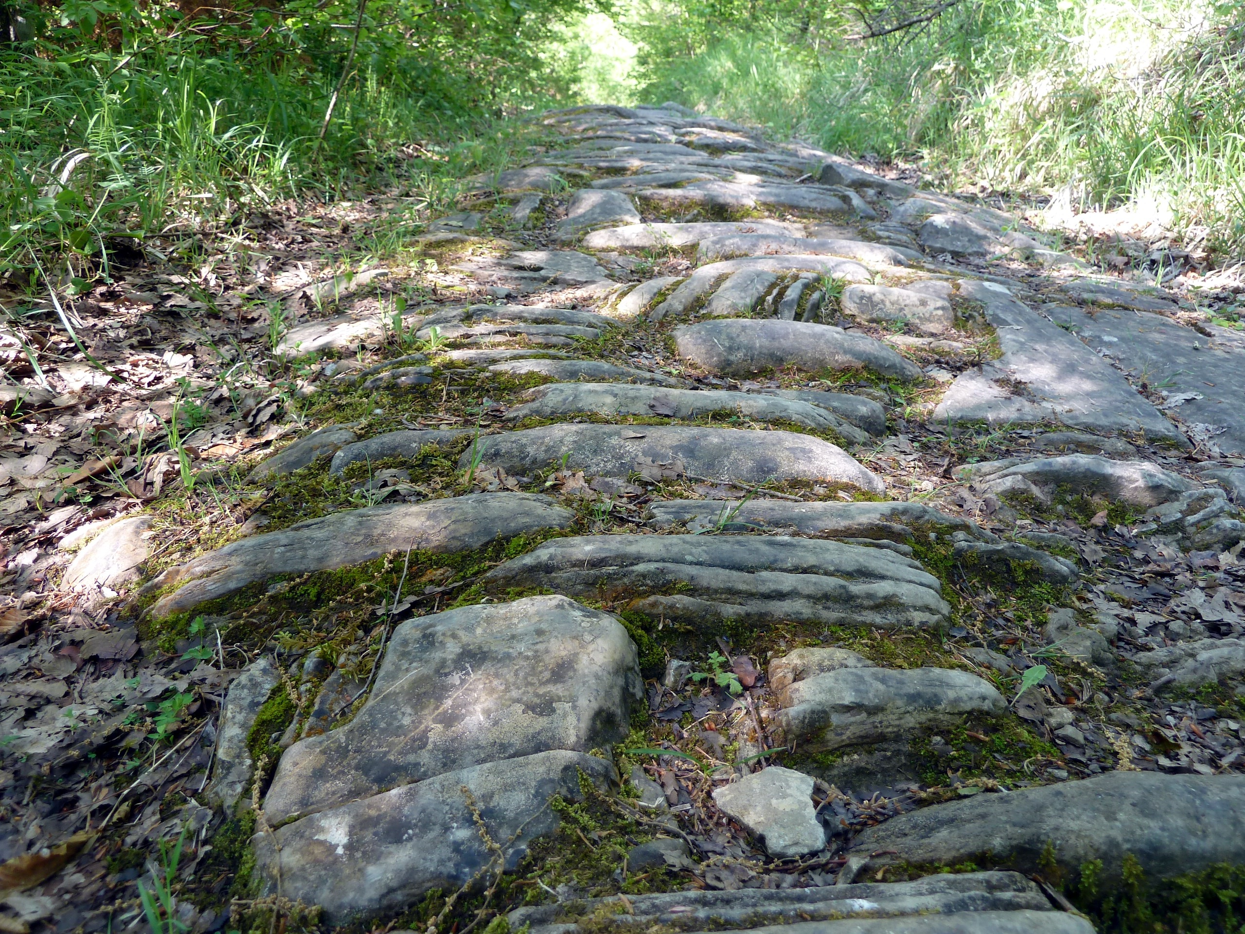 Old paving on the route called "Via Romea" in Apennine Mountains on the way from Bagno di Romagna to Passo Serra